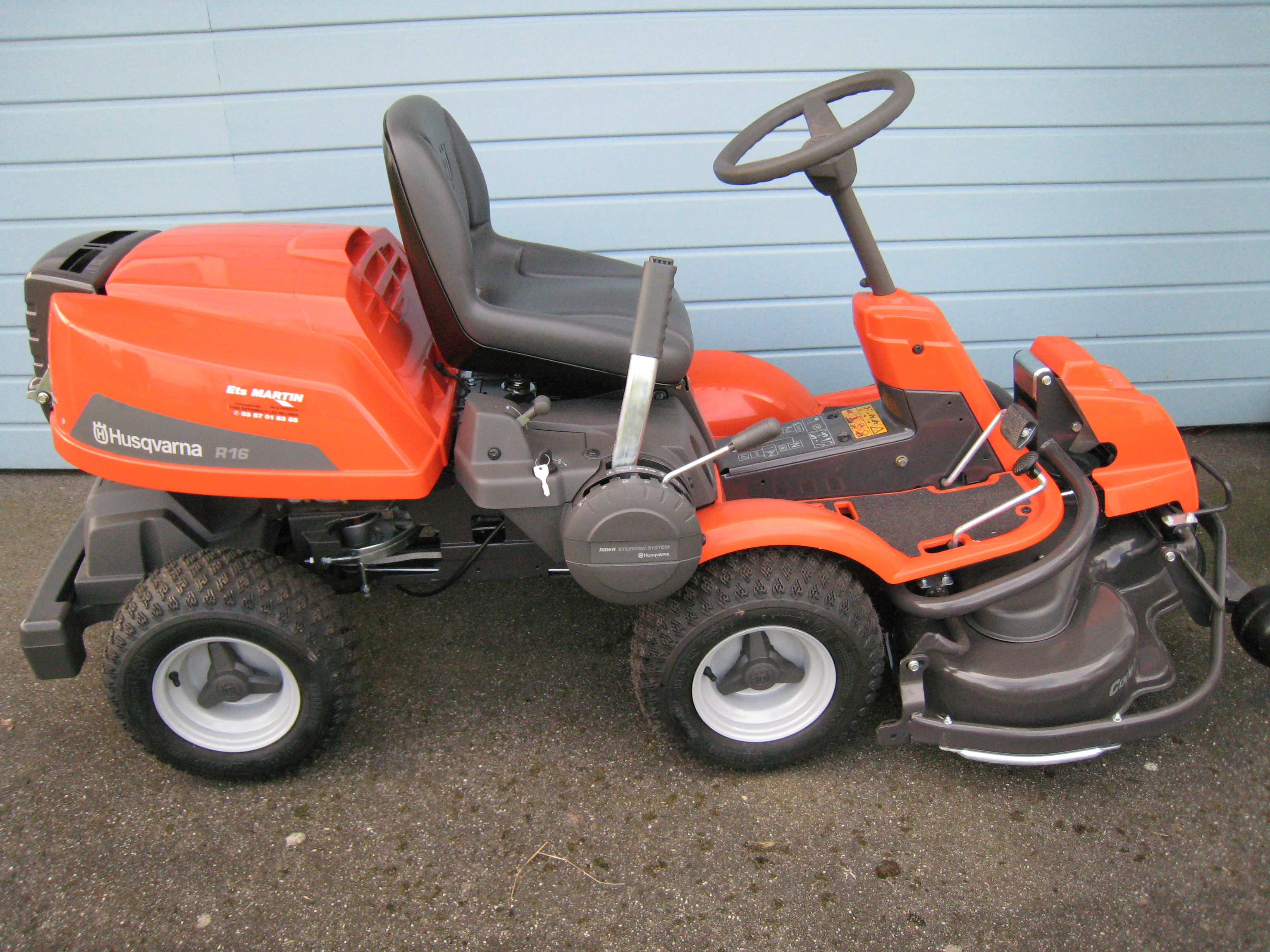 Husqvarna Rider lawnmower featuring an articulated steering and a front-mounted cutting deck